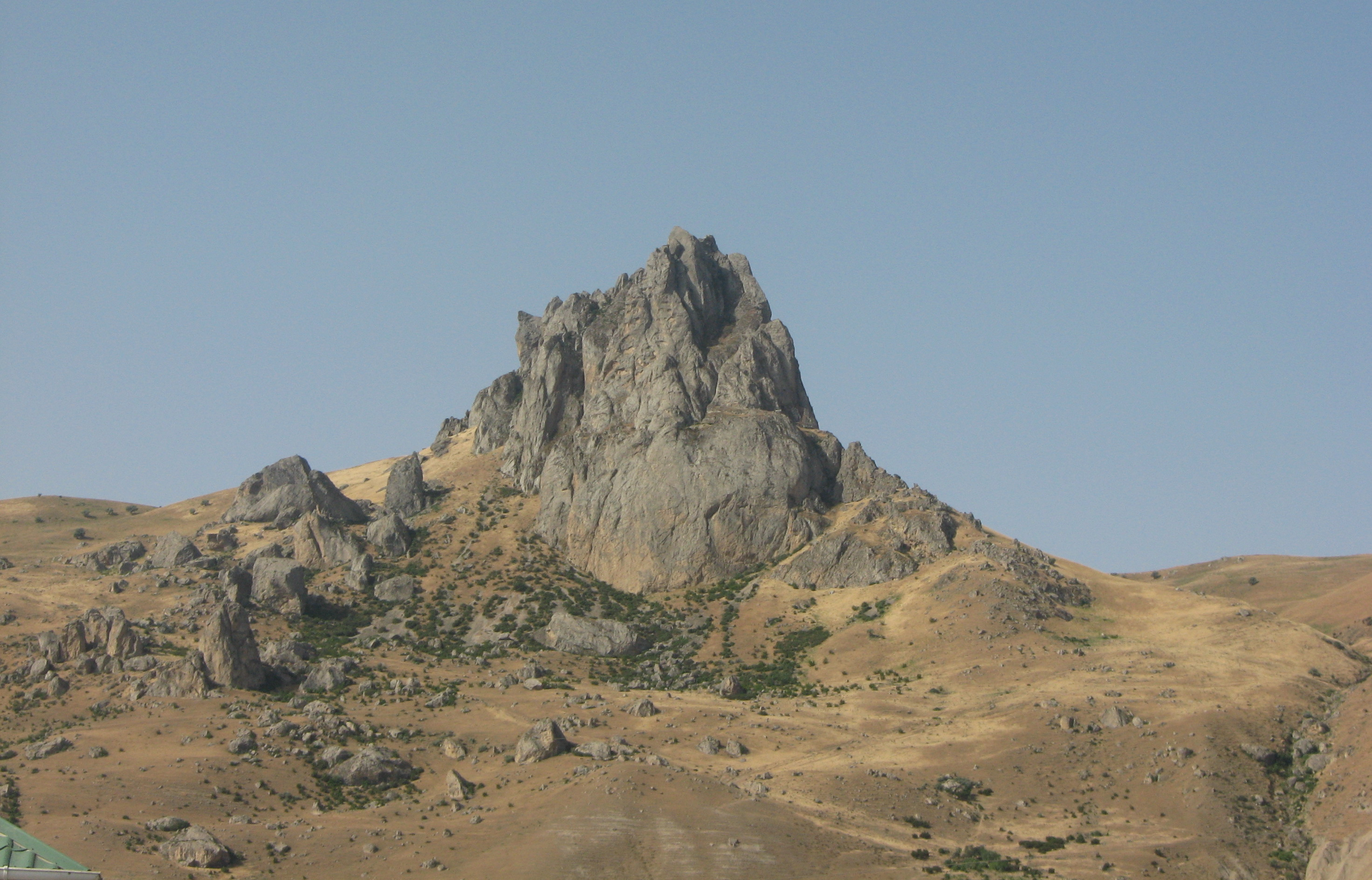 Beshbarbaq mountain in Azerbaijan.